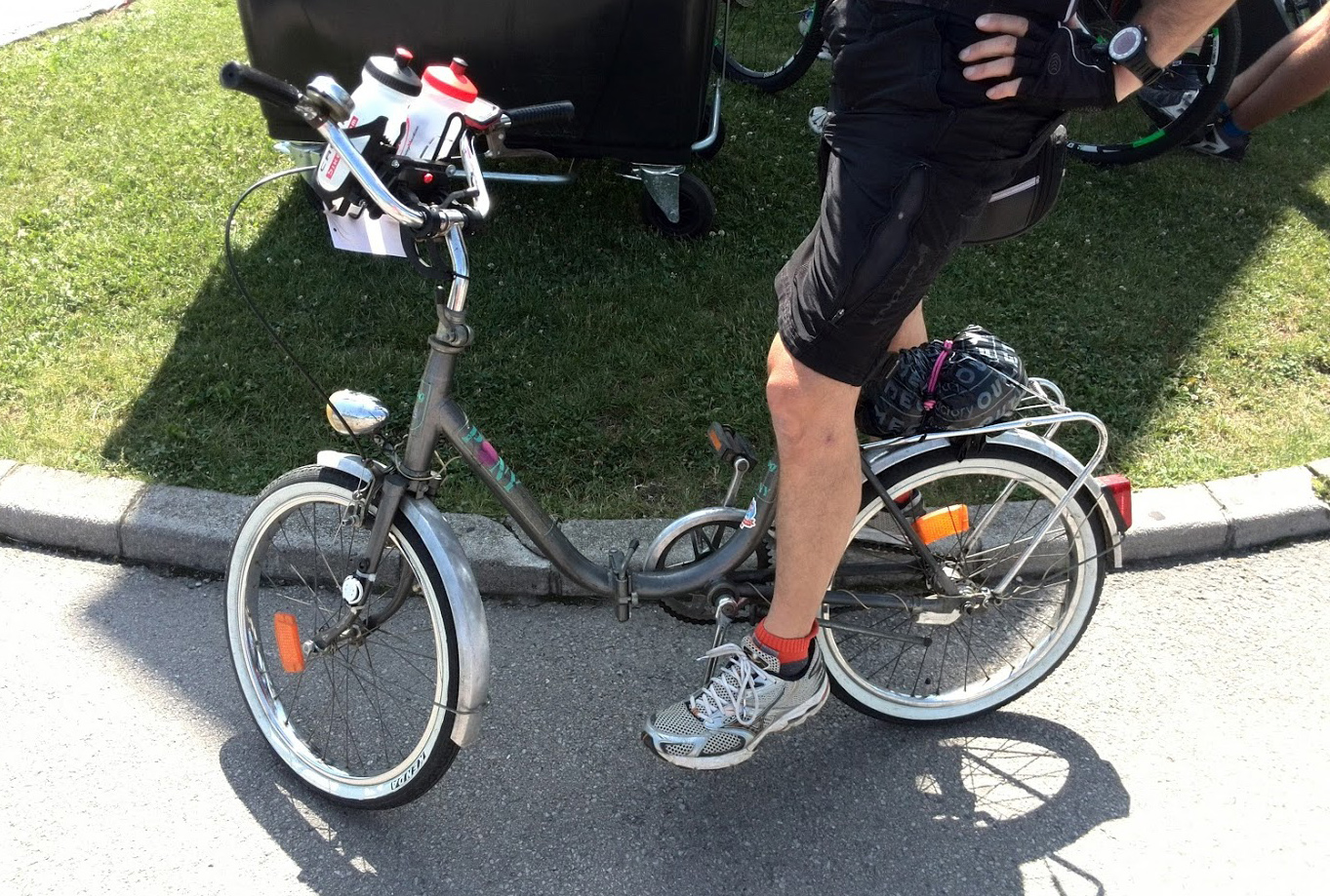 Rog Pony on Maraton Franja (2018) - Mala Franja